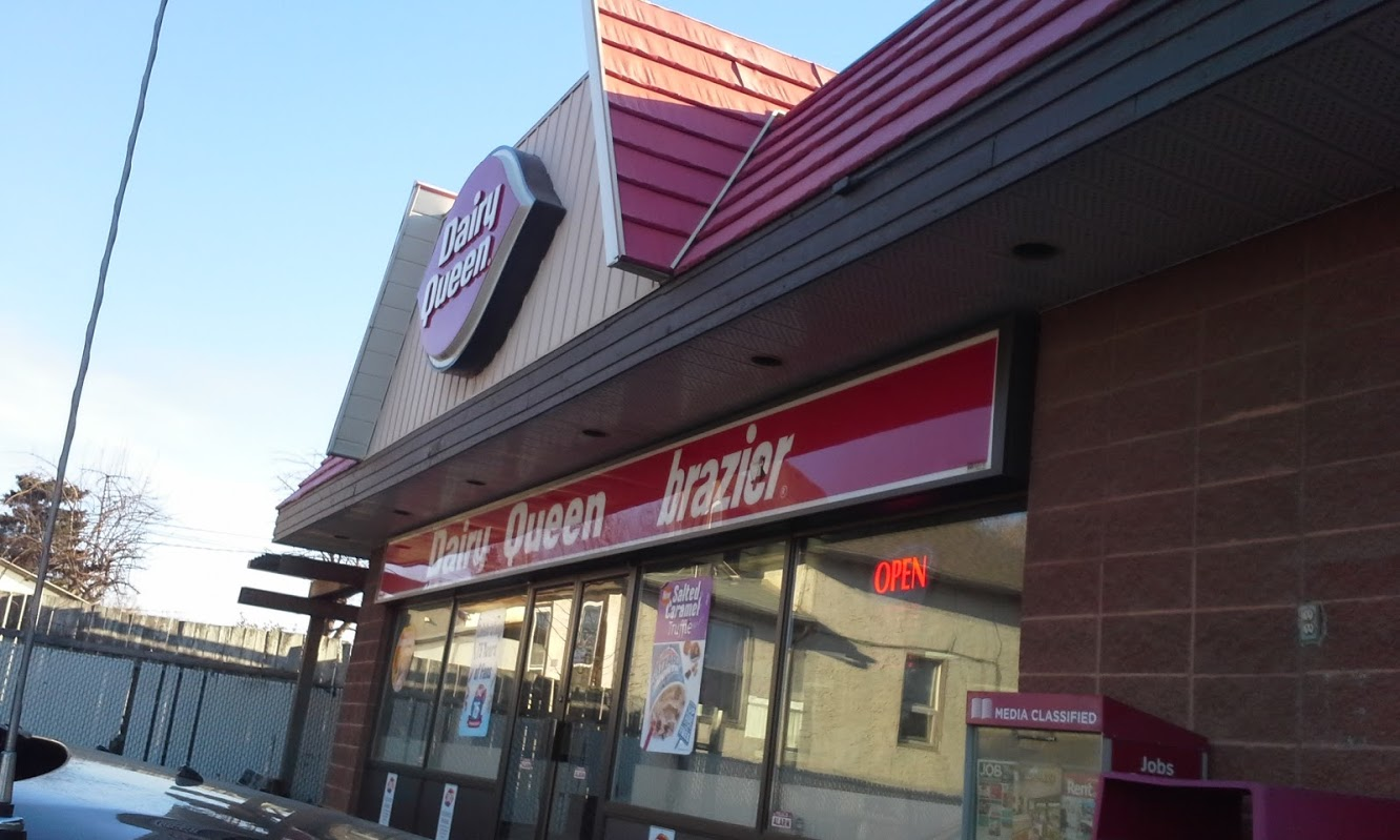 A Dairy Queen Brazier in Edmonton, Alberta